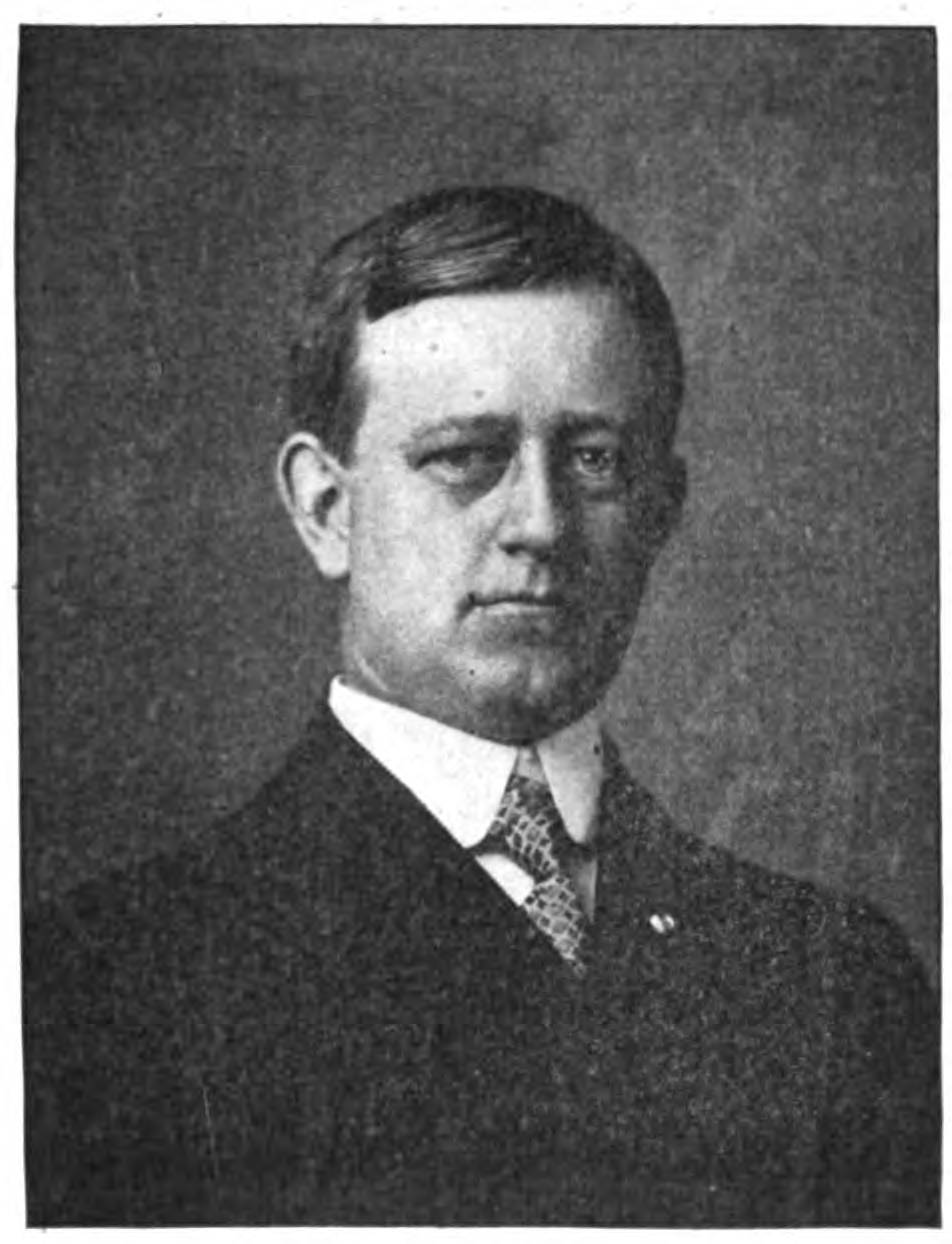 Ohio politician Francis W. Treadway seen in 1905.